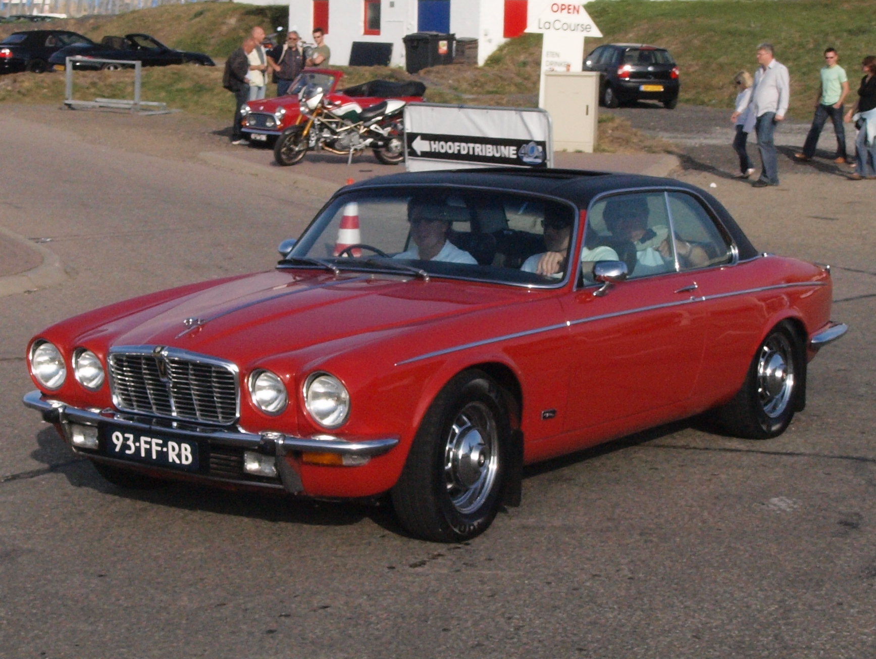 Jaguar XJ5.3C - Photographed at the Nationaal Oldtimer Festival Zandvoort 2009, The Netherlands. OLYMPUS DIGITAL CAMERA